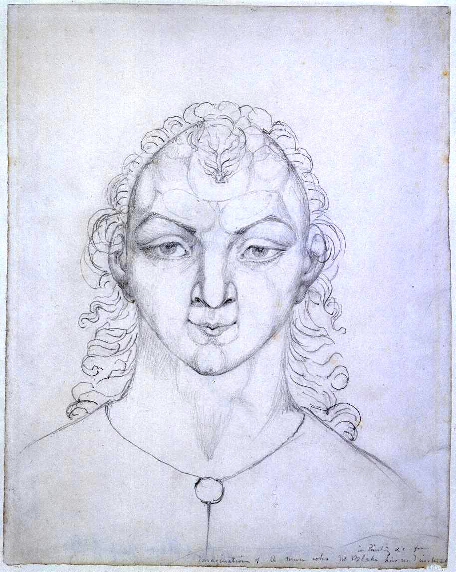 after William Blake The Man Who Taught Blake Painting in his Dreams (counterproof) after c.1819-20 contrast increased